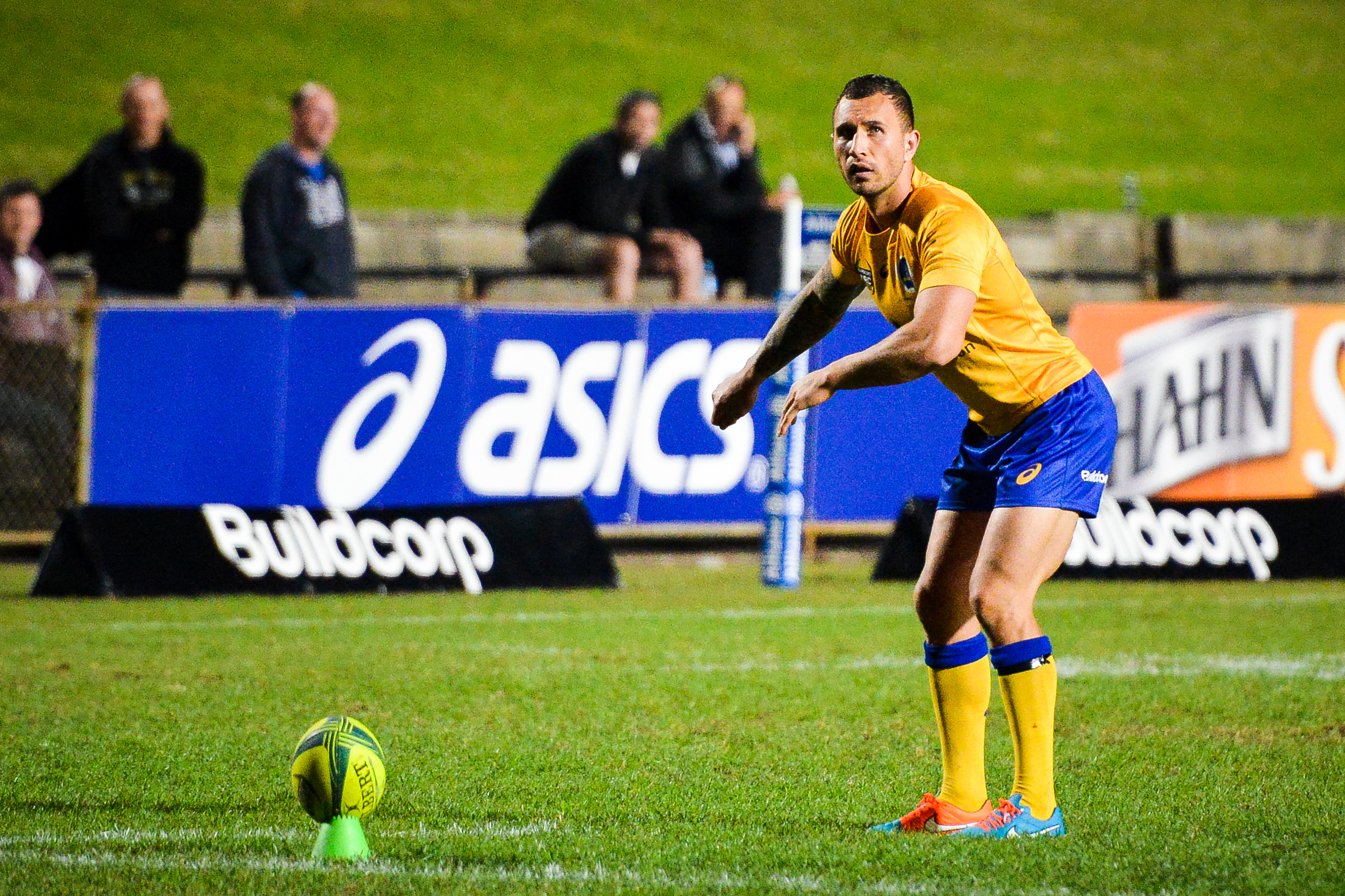 Brisbane City versus North Harbour Rays NRC Round 8